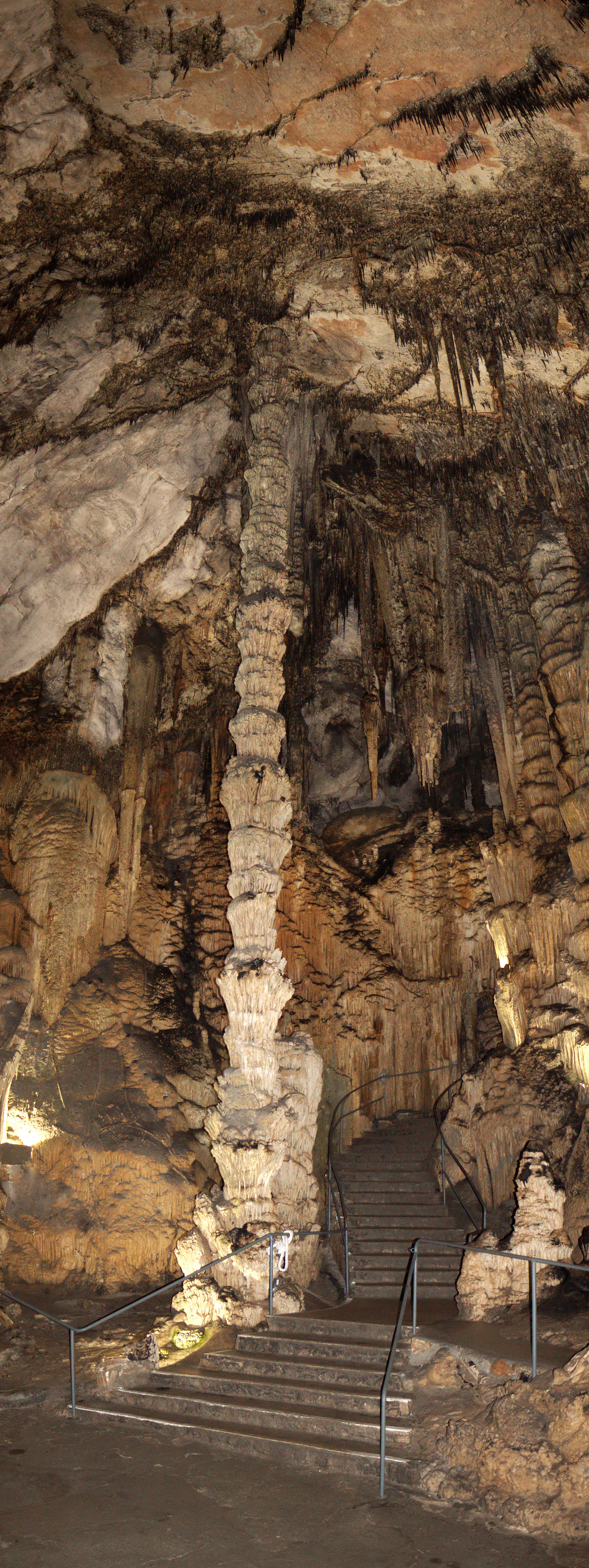 "Reina de las columnas" (Queen of Columns), Coves d’Artà, Capdepera, Majorca, Spain.